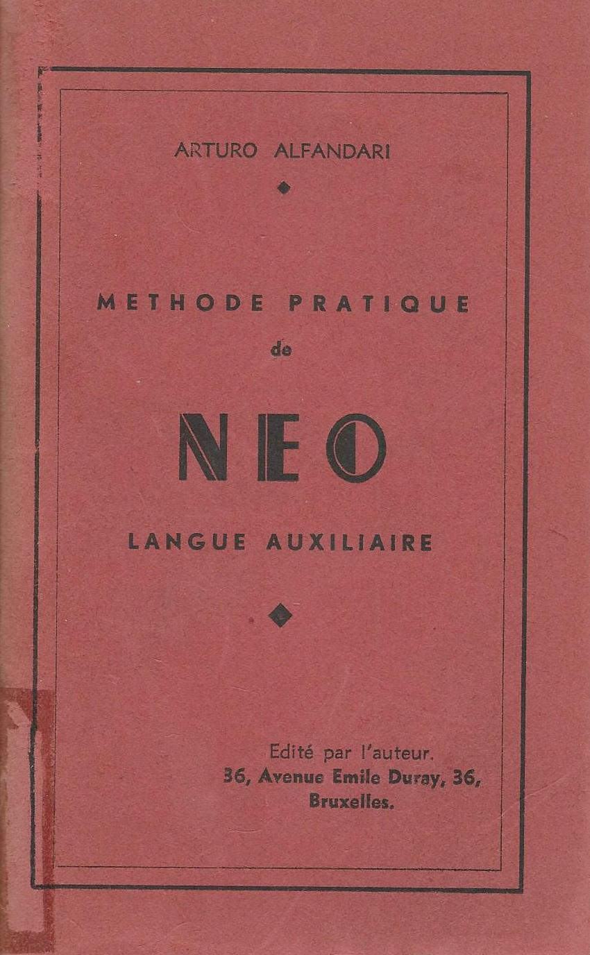 book cover of "Méthode Pratique de Neo", 1937